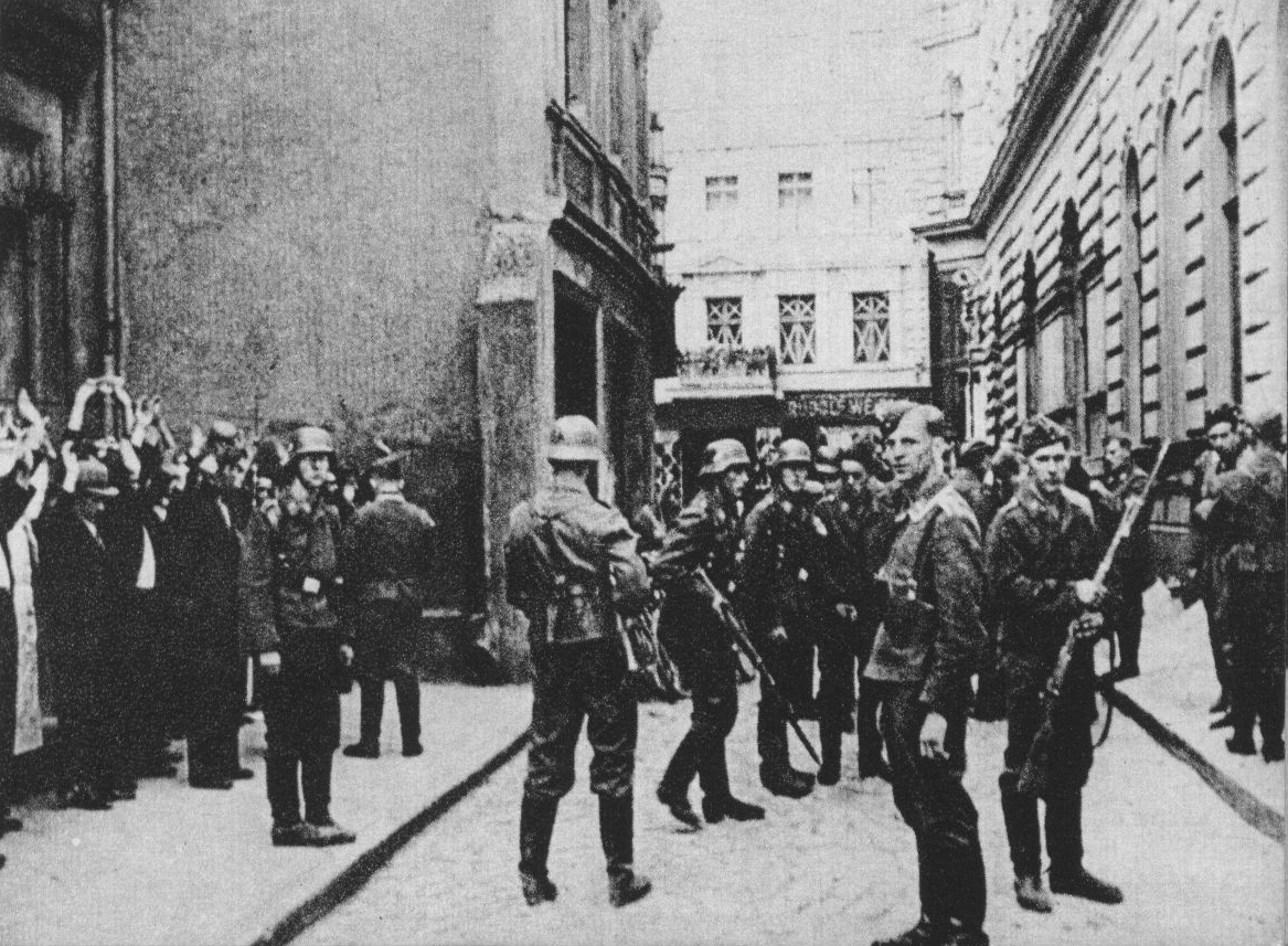 Bydgoszcz on 8th September 1939 – first days of German occupation. Polish civilians arrested during the “łapanka” and guarded by Wehrmacht soldiers at rallying point at Parkowa Street.